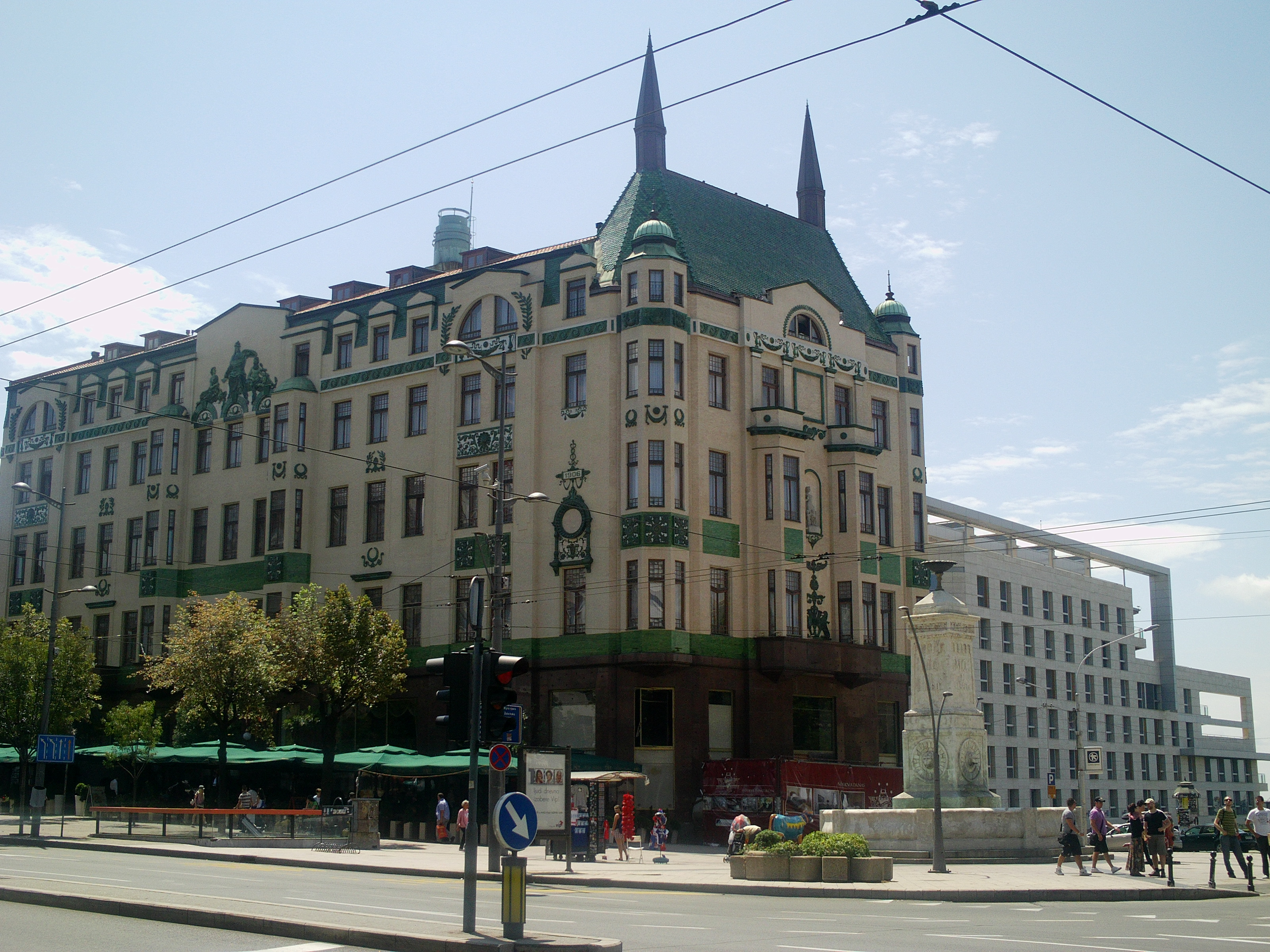 Hotel Moskva on the Terazije Avenue